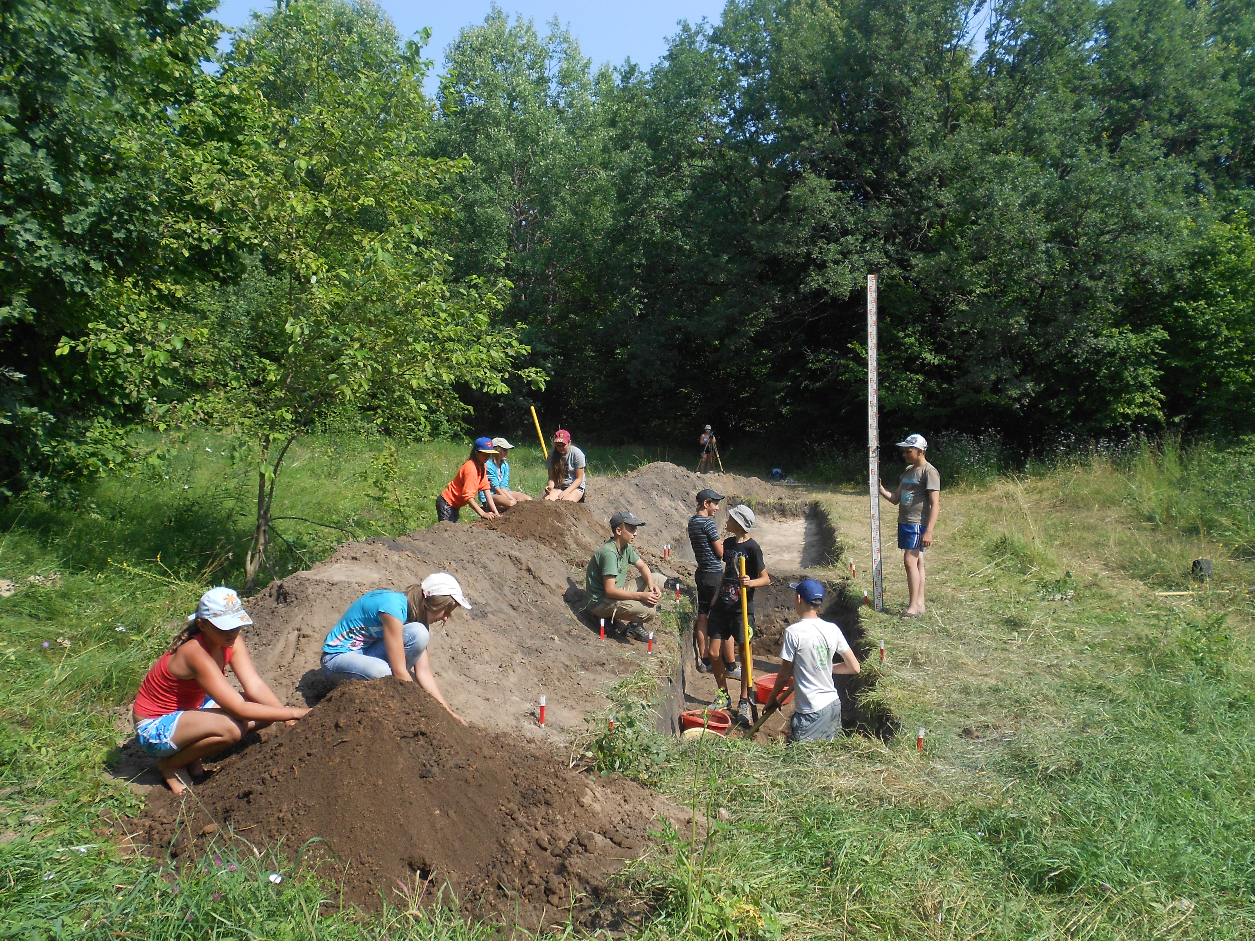 Archaeological excavations: early Iron Age hill fort of Haradok, near the Čyrvonaja Horka village (Lucki Sieĺski Saviet, Žlobin Rajon of Homieĺ Voblasć, Belarus), with the participation of school children.